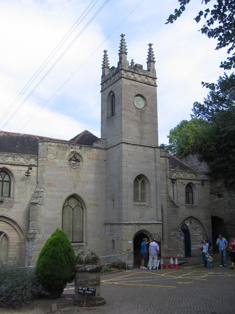 St Mary's Chapel, Guy's Cliffe. The renovated chapel and clock tower. The chapel and adjacent rooms have been renovated and are now used as Masonic meeting rooms for a consortium of local lodges.